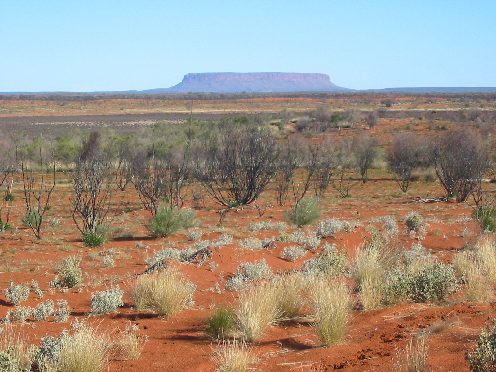 Australian Outback: Mount Conner/Attila, a mesa between near Uluru